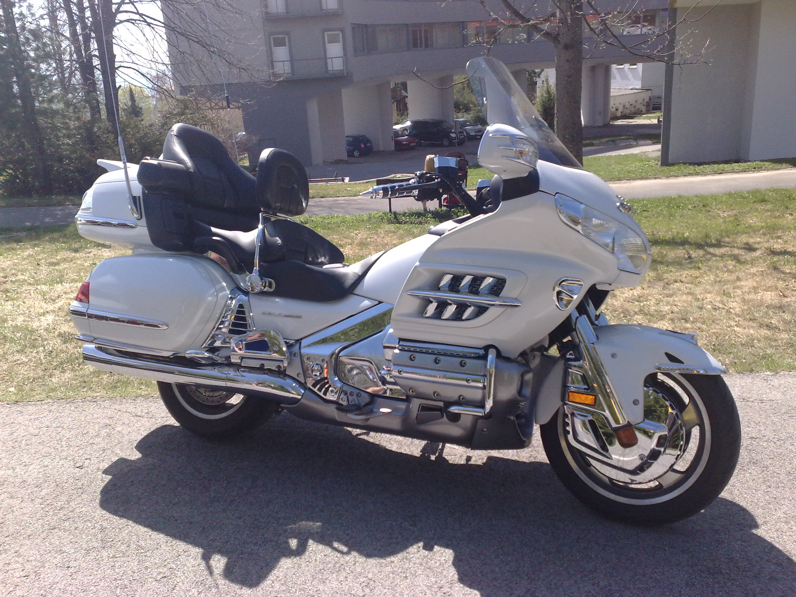 White-coloured Honda Gold Wing GL1800